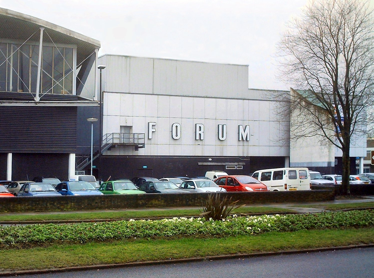 A photo of Billingham Forum, a Sports and Theatre Complex in the North-East England Town of Billingham.